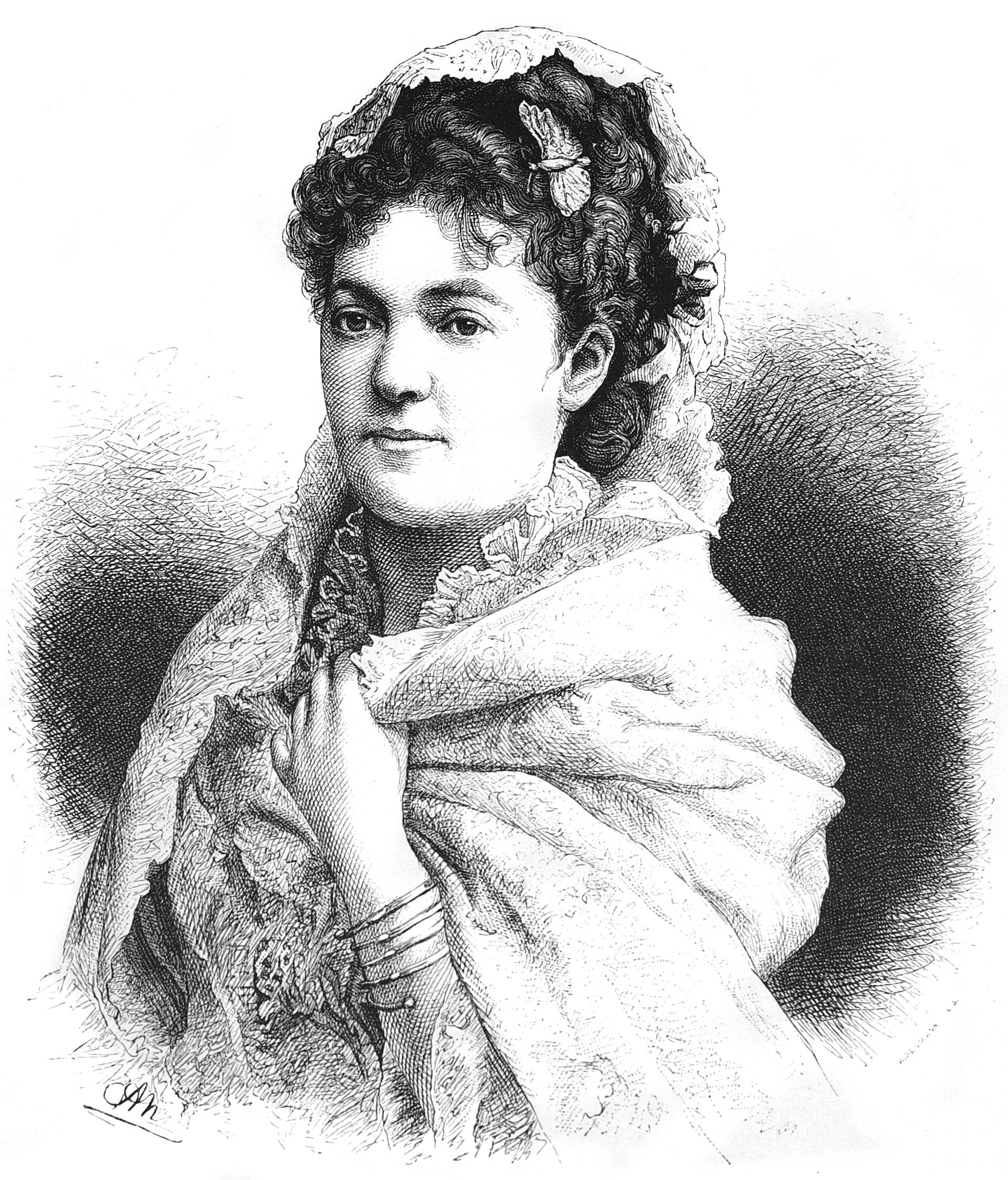 caption: "Adele Grantzow.Nach einer Photographie auf Holz gezeichnet von Adolf Neumann."